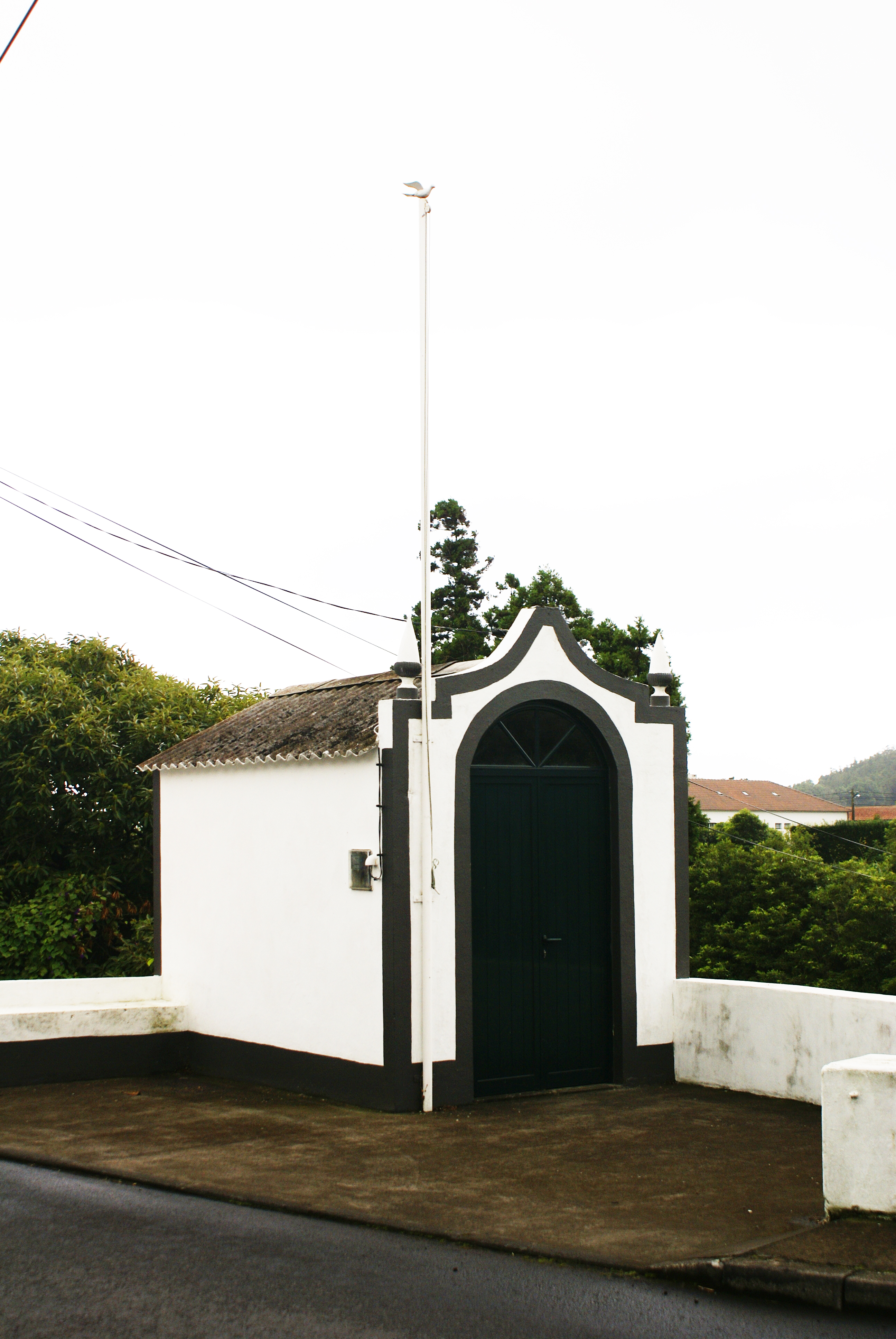 Império do Espírito Santo da Ponte, Flamengos, concelho da Horta, ilha do Faial, Açores, Portugal